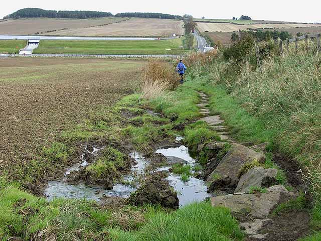 Hadrian's Wall National Trail near Whittle Dene Reservoirs, near to Harlow Hill, Northumberland, Great Britain. Erosion is a constant problem on the very popular Hadrians Wall National Trail which runs 135 km from Bowness-on-Solway to Wallsend. Link . Here a lineof flagstones has been laid to avoid the worst of the mud. Whittle Dene Reservoirs can be seen in the middle distance with Harlow Hill NZ0768 beyond.